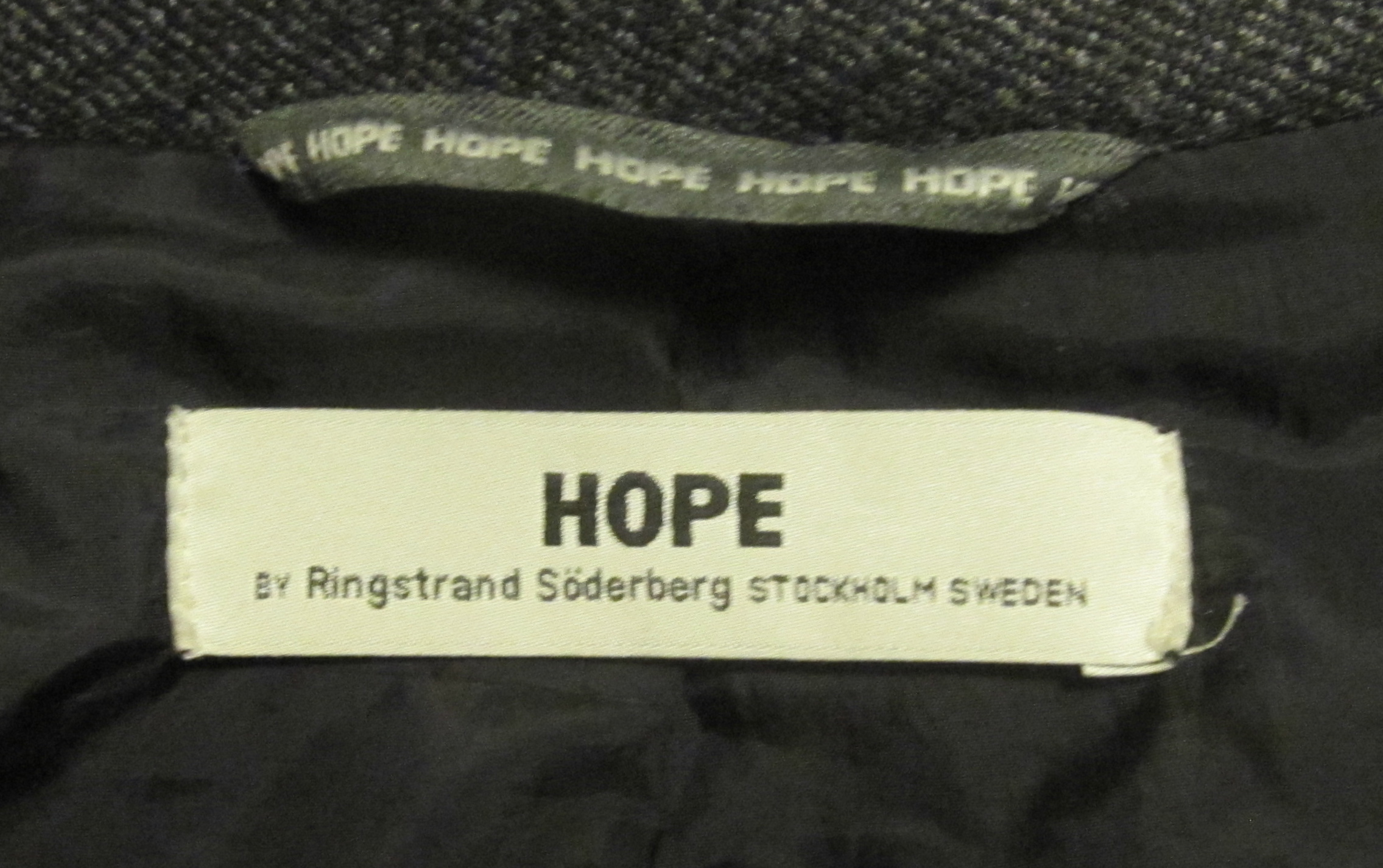 Hope brand logo as seen on on of their jackets